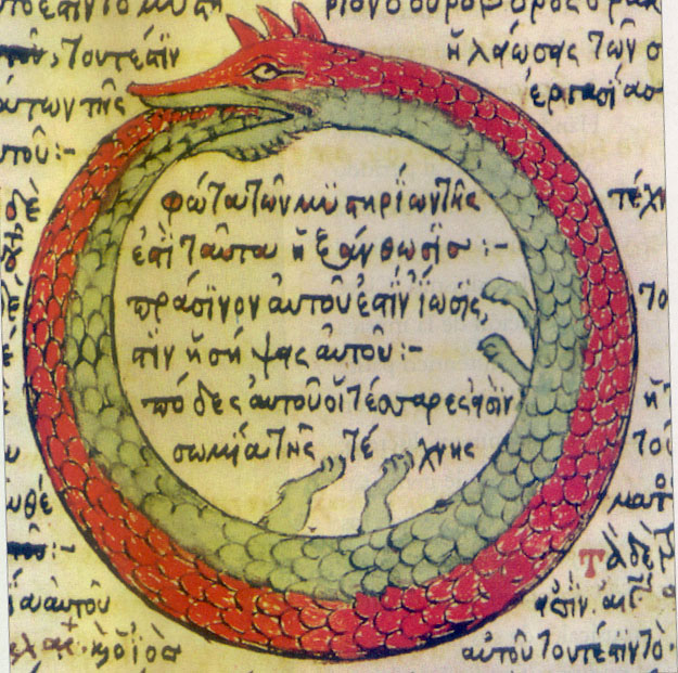 Ouroboros drawing from a late medieval Byzantine Greek alchemical manuscript.